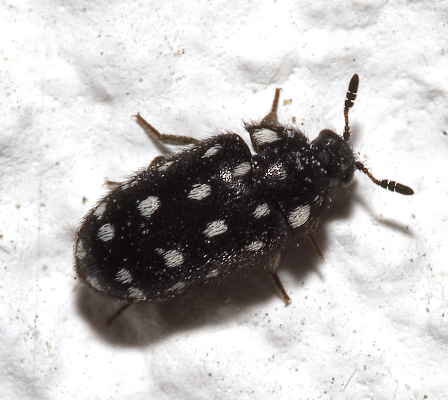 Please report references to kulacgmx.at.